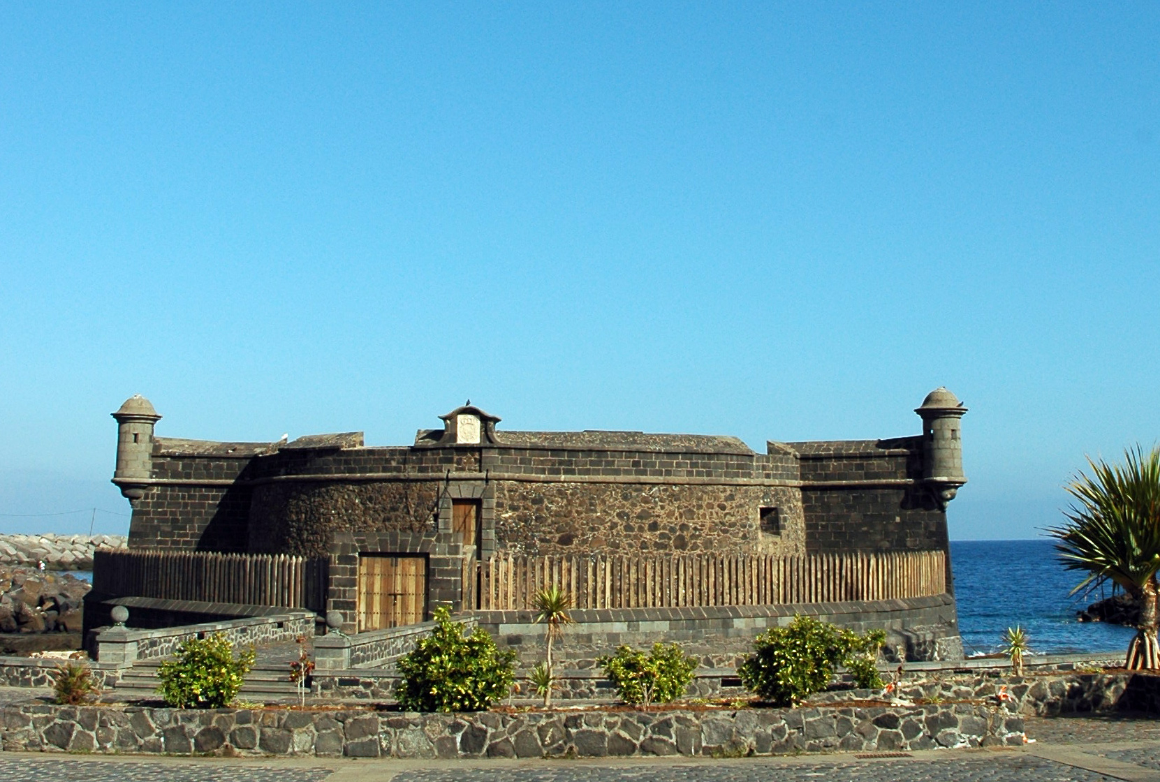 San Juan Baptist Castle (aka "Castillo Negro"). Santa Cruz de Tenerife. (Tenerife, Canary Islands)